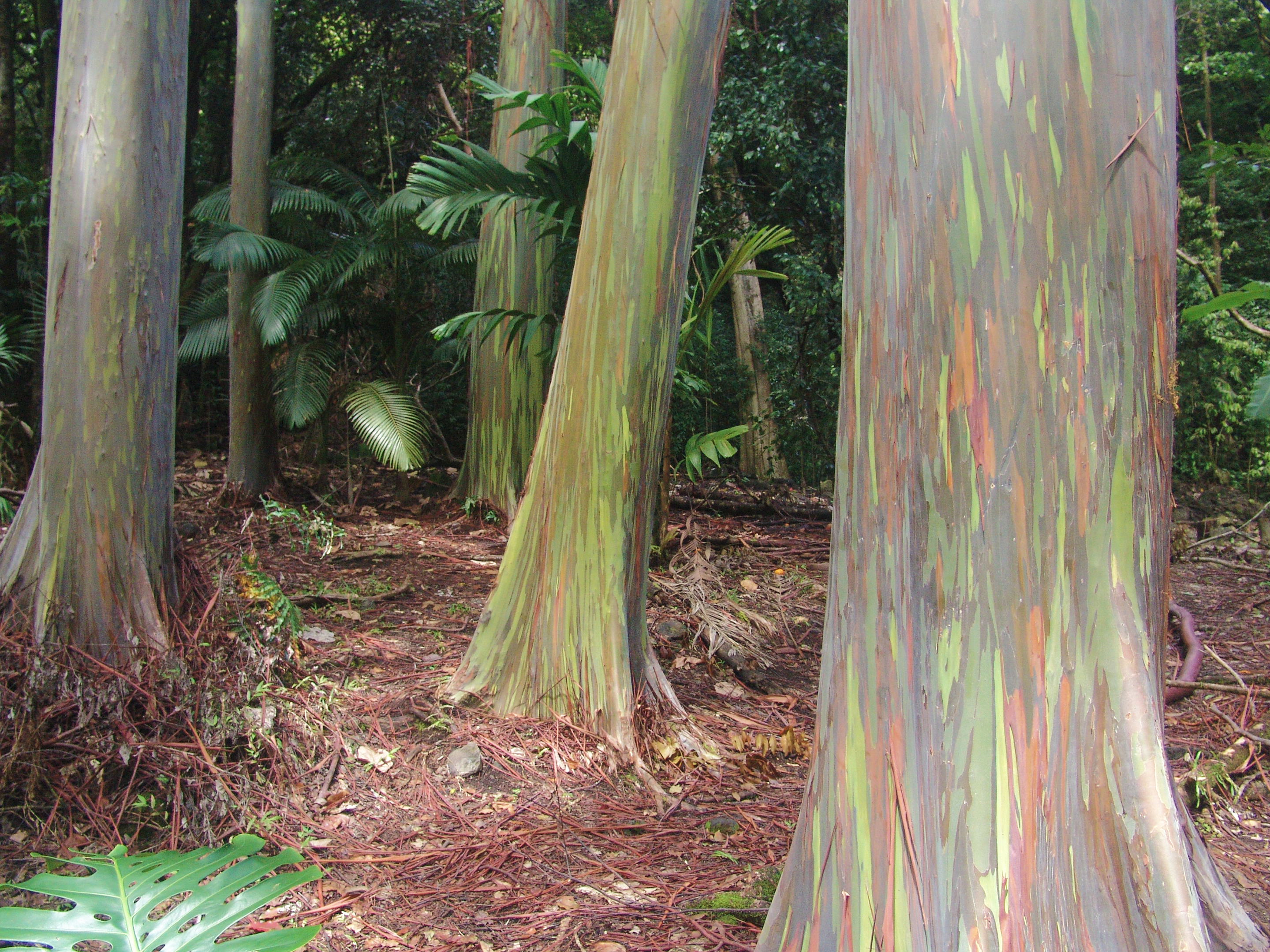 Rainbow eucalyptus trunks at Keanae Arboretum, Maui, Hawaii